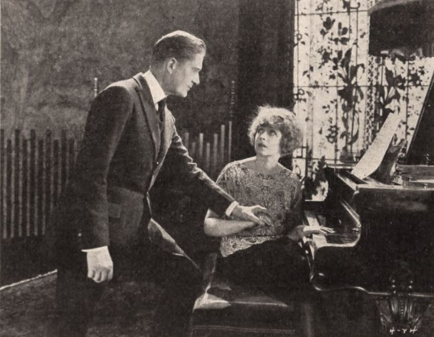 Still from the American drama film Domestic Relations (1922) with William P. Carleton and Katherine MacDonald, on page 68 of the June 3, 1922 Exhibitors Herald.